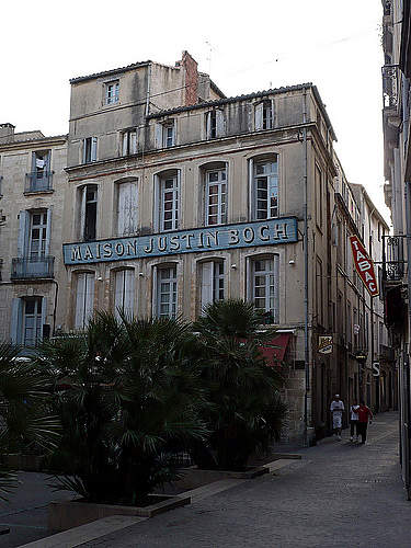 Montpellier old building on Saint-Côme place